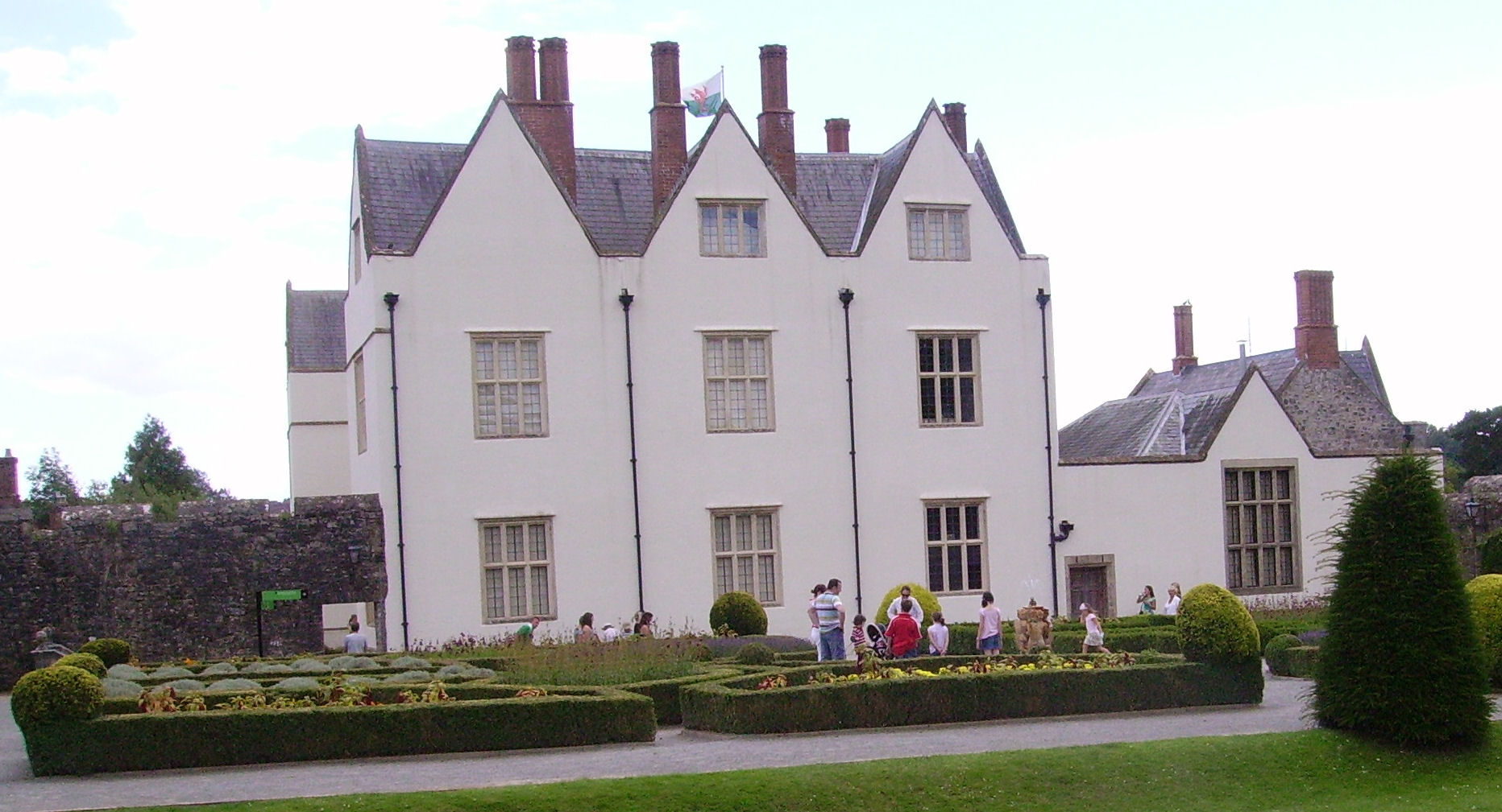 inside the Museum of Welsh Life at Cardiff in Wales